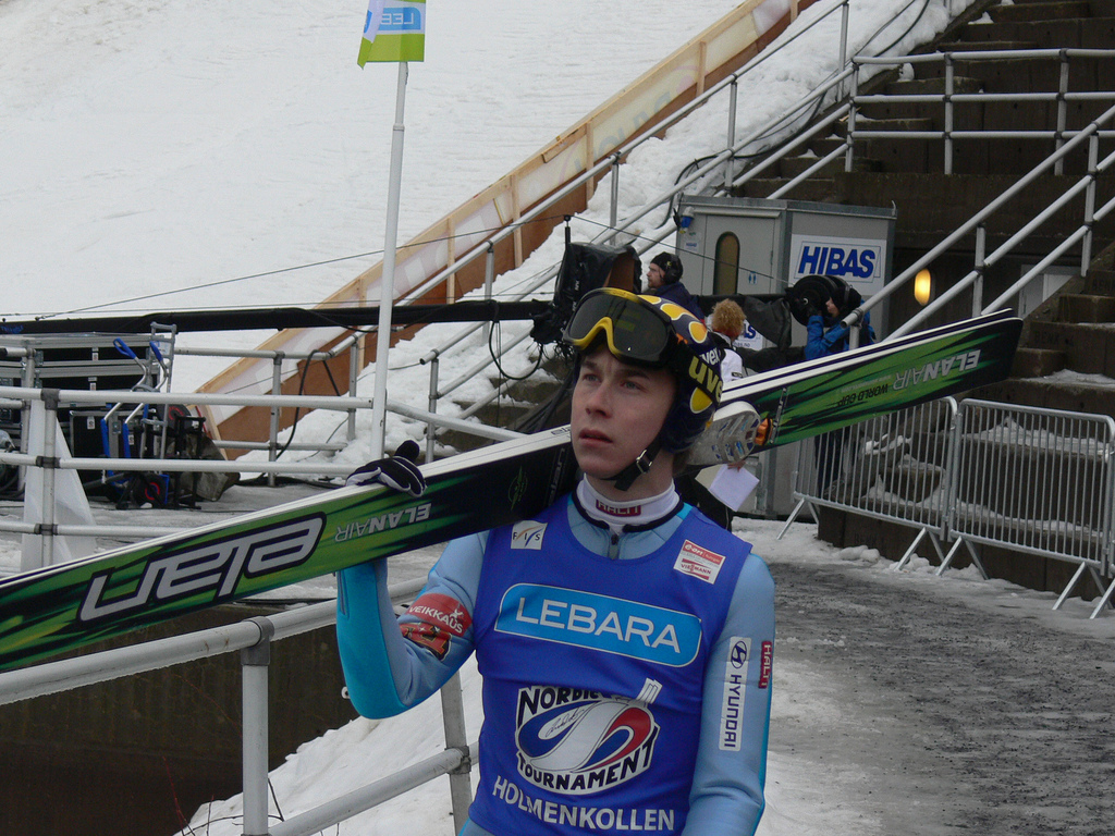 From the 2008 World Cup ski jumping event in Holmenkollen.